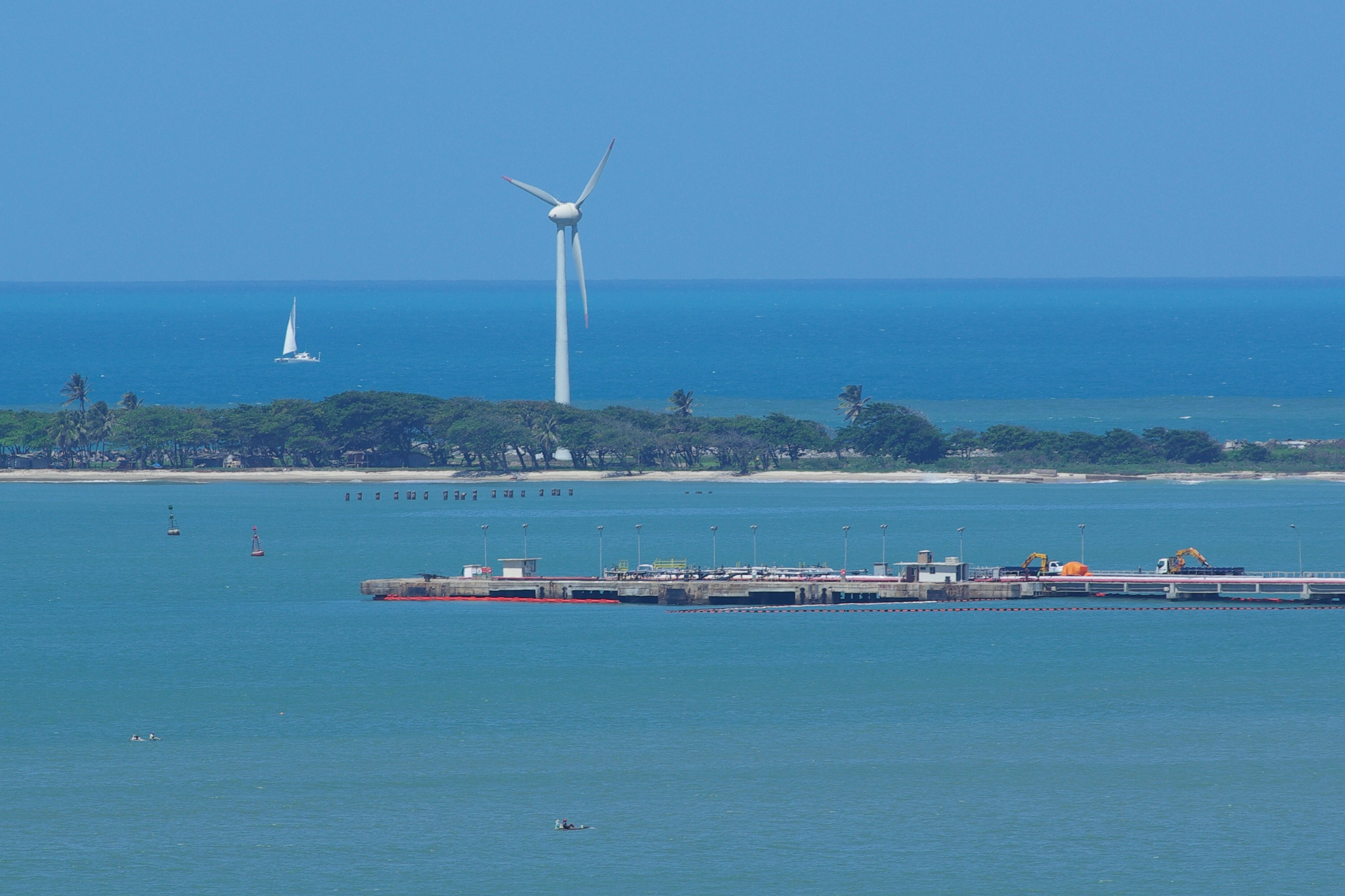 Praia Mansa (2)